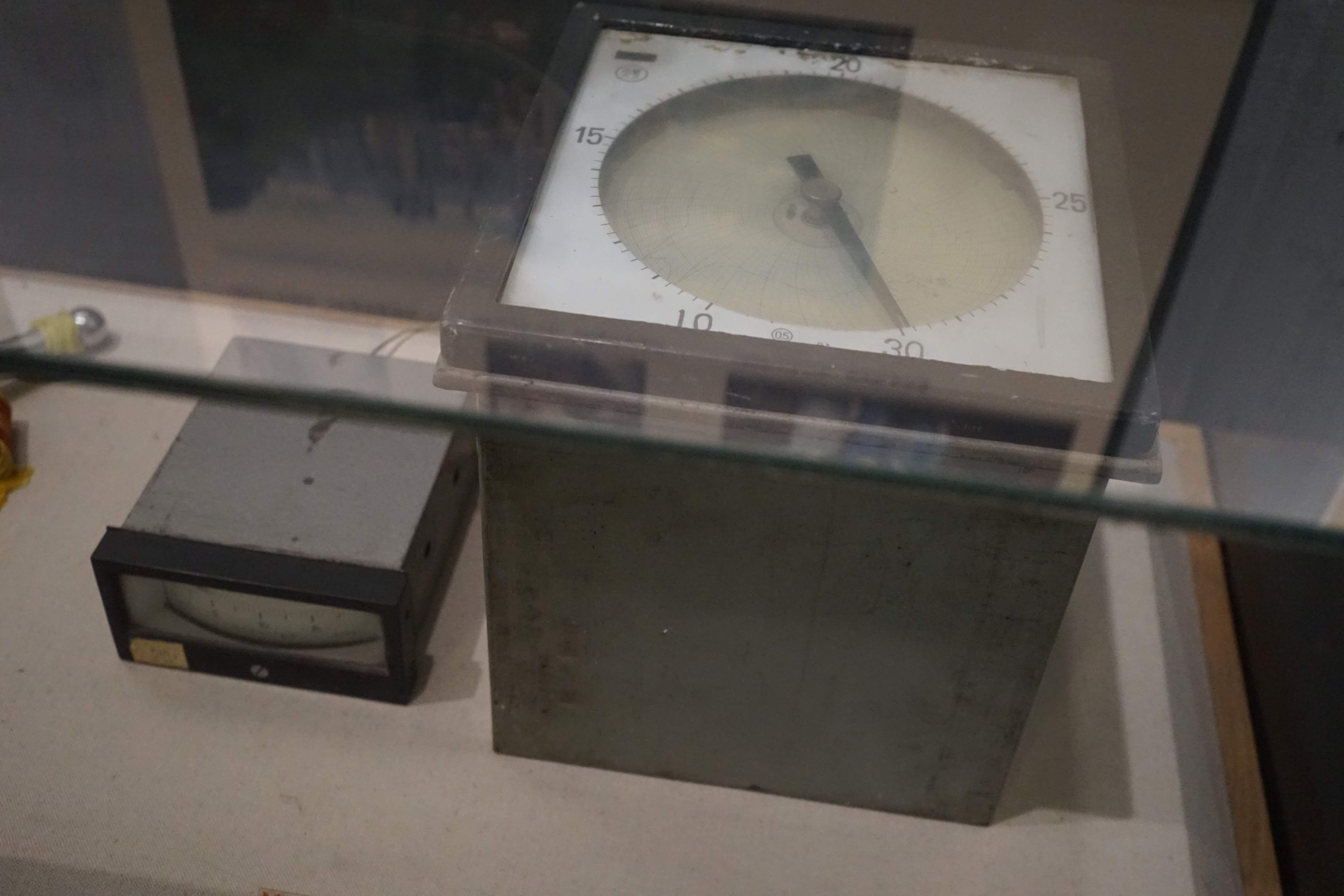 Huaxin Cement Plant. New type kiln control instruments.